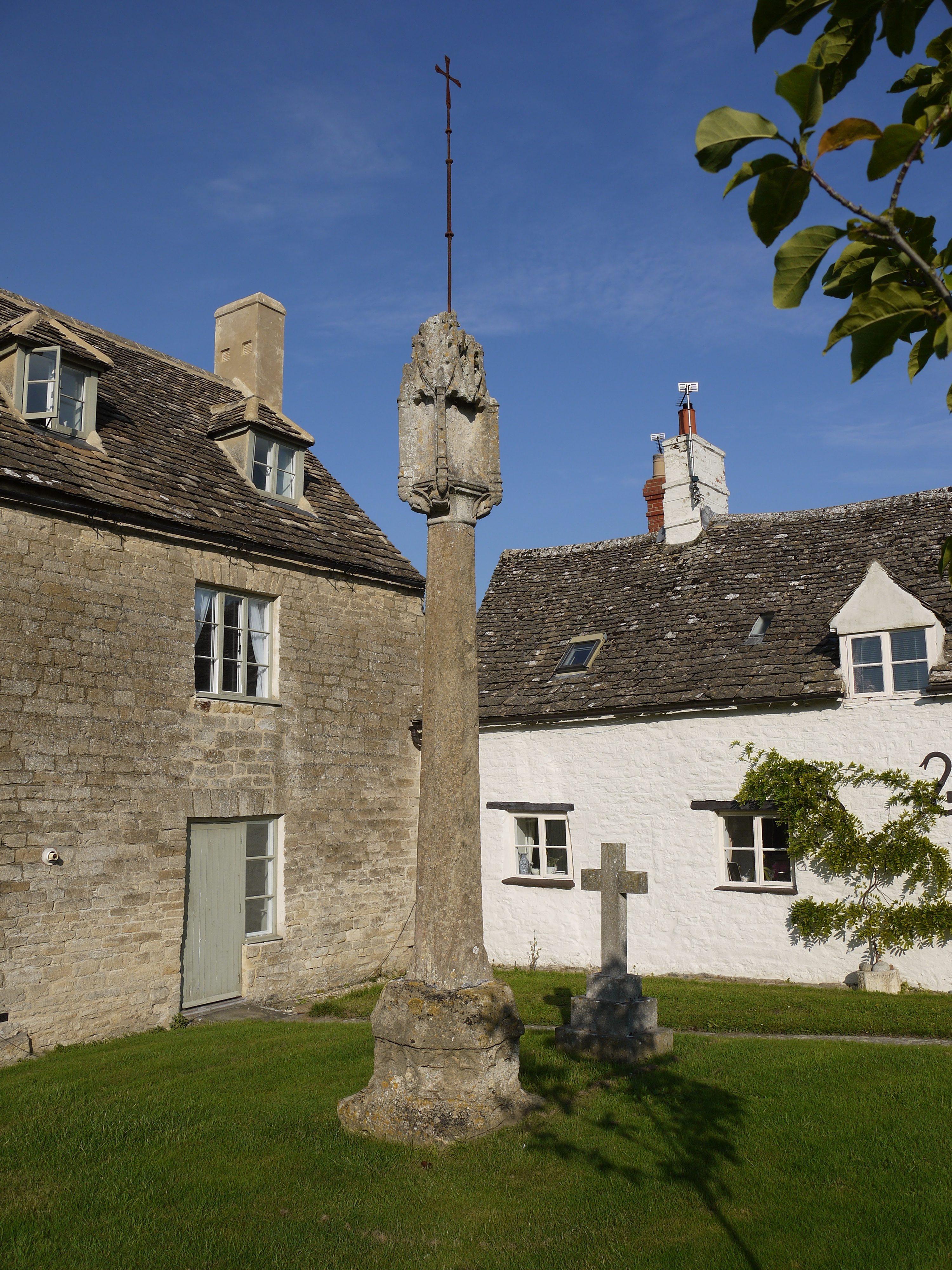 OLD TOWN CROSS, IN CHURCHYARD, CHURCH OF ST SAMPSON Wikidata has entry Q17543349 with data related to this building.